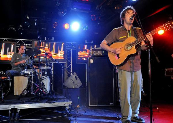 TukeZoo on A38, Budapest